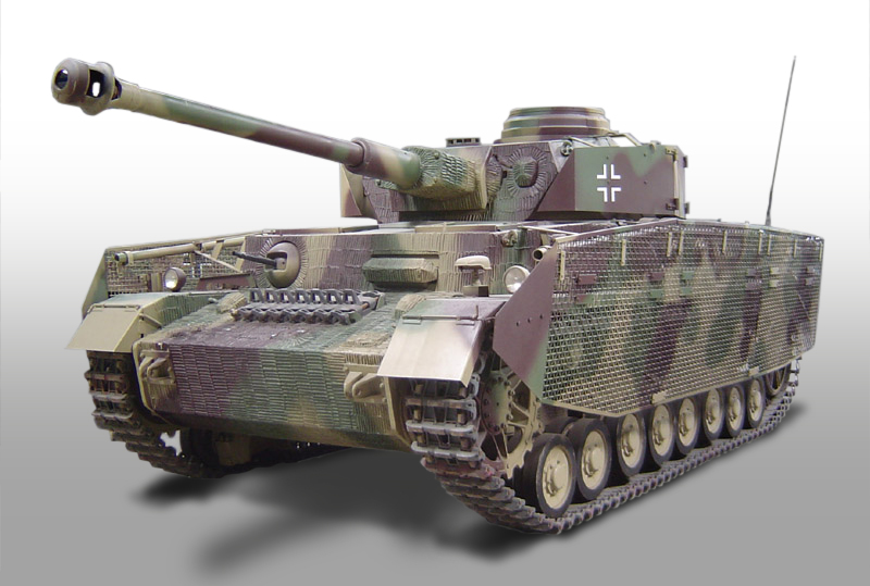 PzKpfw IV, version J on display at the Musée des Blindés in Saumur.